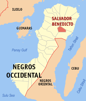 Map of Negros Occidental showing the location of Salvador Benedicto